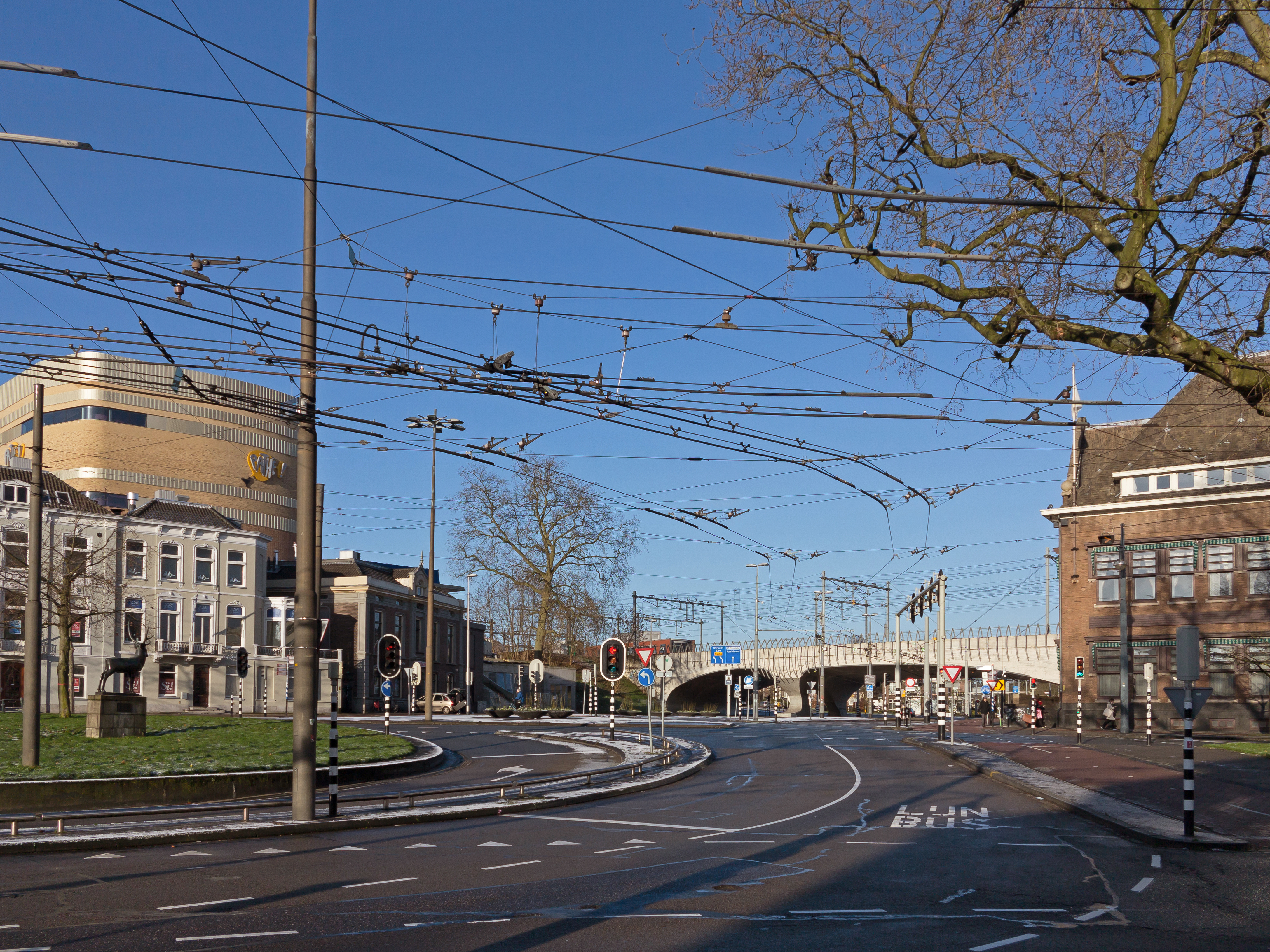 Arnhem, square (het Willemsplein) with tunnel to de Zijpendaalseweg